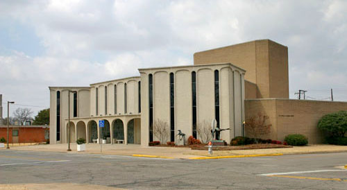 I took this photo myself on 03/05/06.